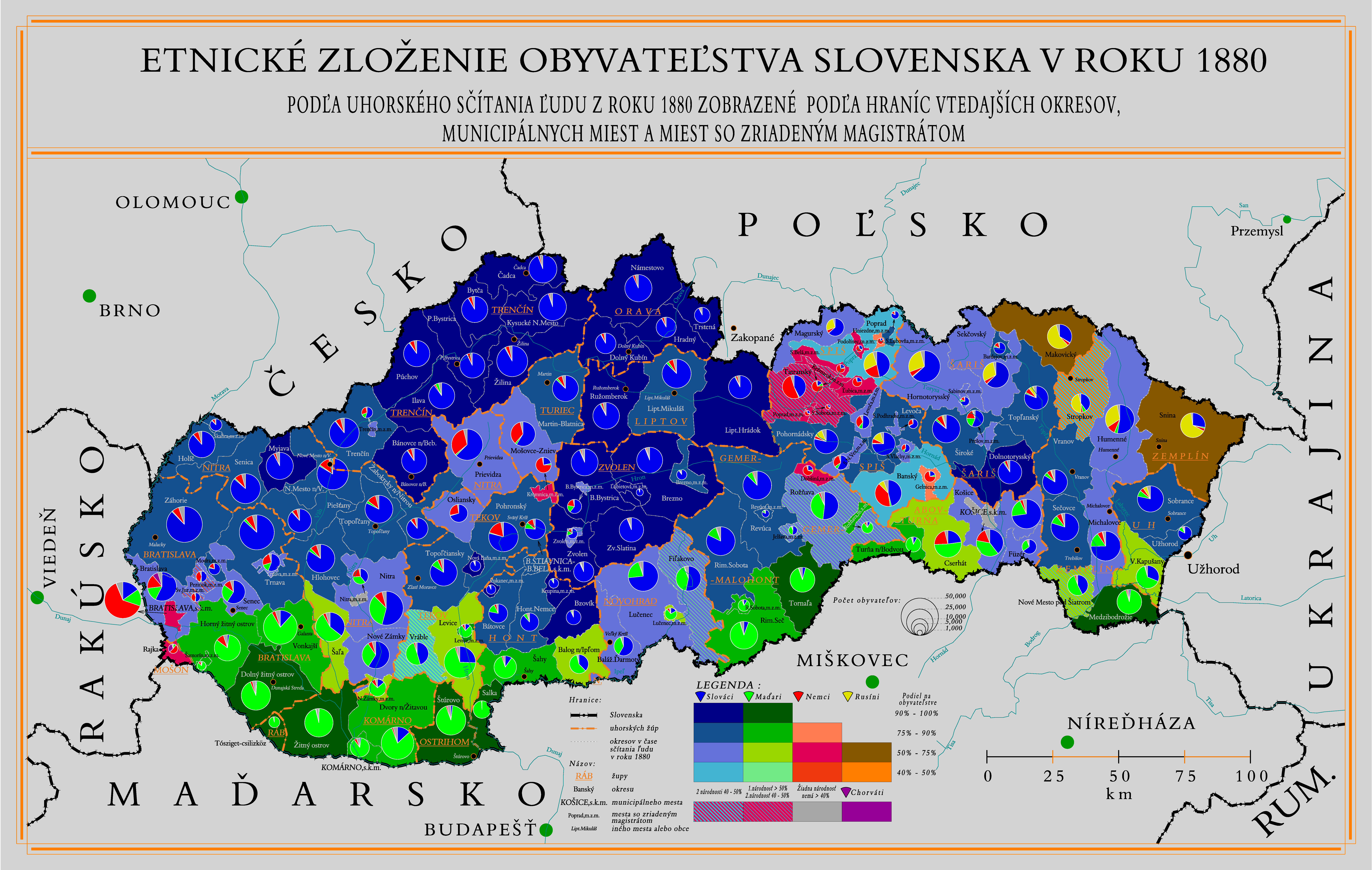 Slovakia's ethnic composition according to the 1880`s census of Kingdom of Hungary by districts, municipal towns and free towns